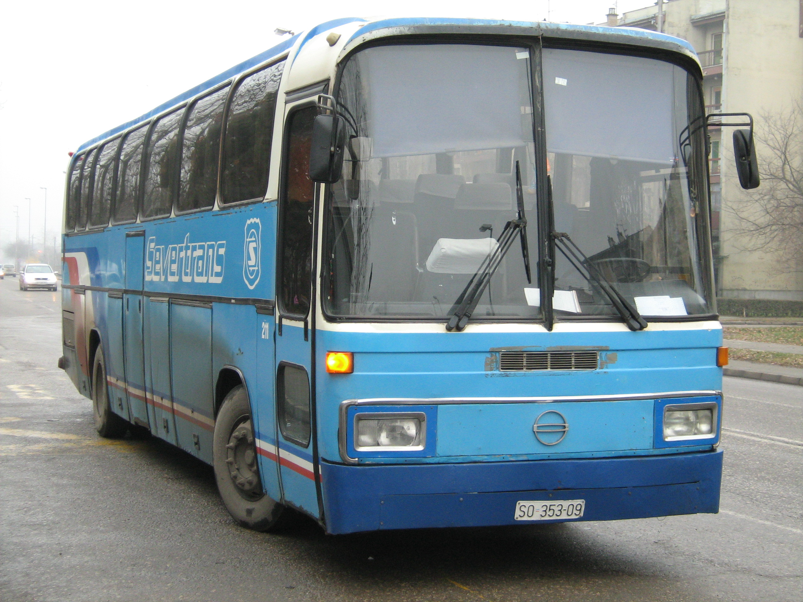 Sanos coach (reg. SO-353-09) in Sombor, Serbia. Severtrans operator.